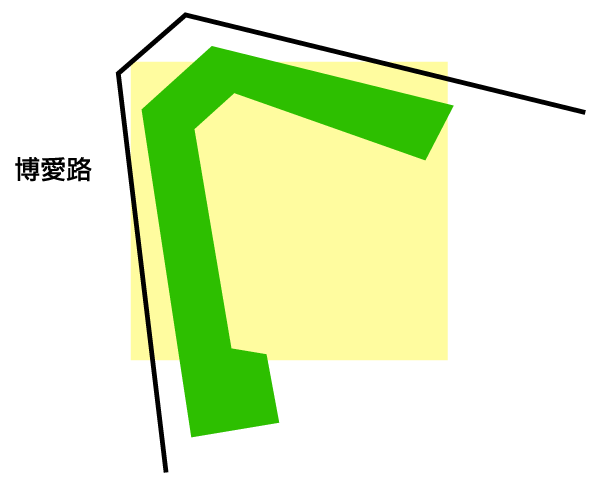 Location of Taipei Post Office.